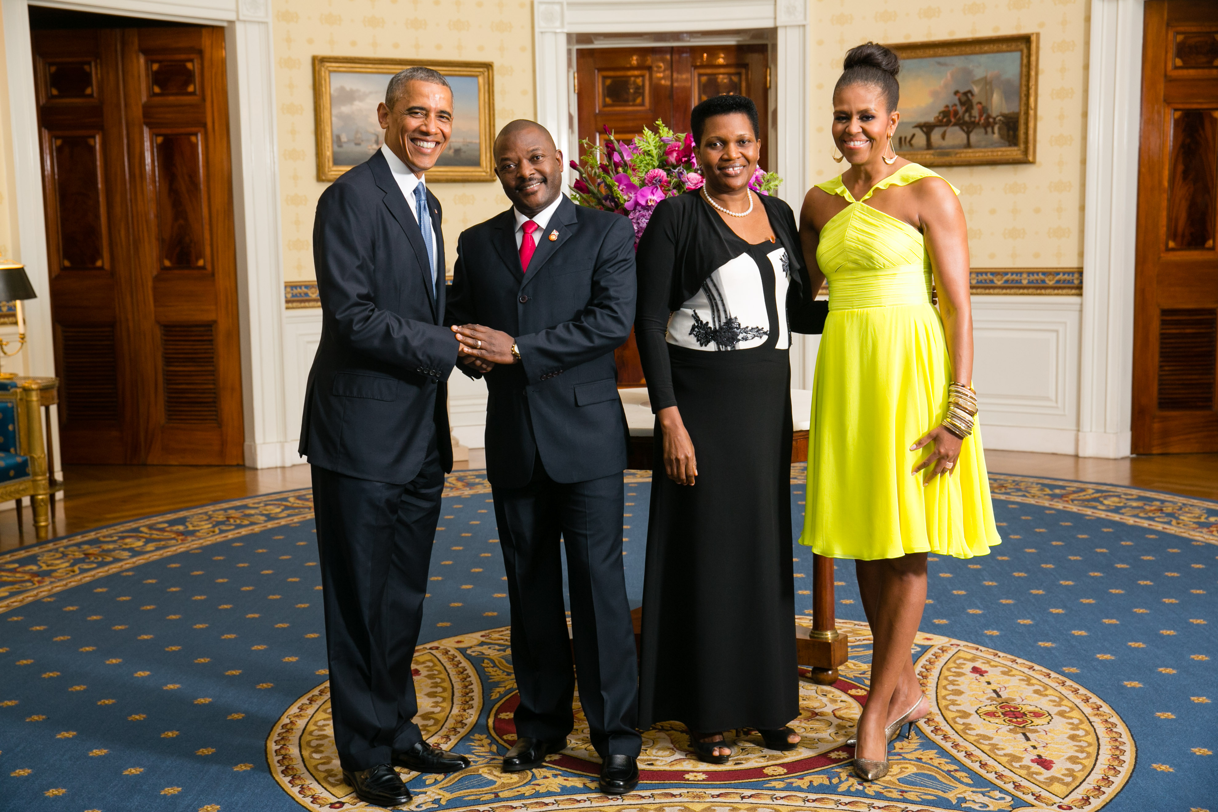 President Barack Obama and First Lady Michelle Obama greet His Excellency Pierre Nkurunziza, President of the Republic of Burundi, and Ms. Denise Bucumi, in the Blue Room during a U.S.-Africa Leaders Summit dinner at the White House, Aug. 5, 2014. [Official White House Photo by Amanda Lucidon] This official White House photograph is in the public domain from a copyright perspective, so while restrictions such as personality or privacy rights may apply, in general, manipulations are allowed.